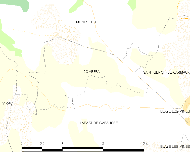 Map of French municipality Combefa